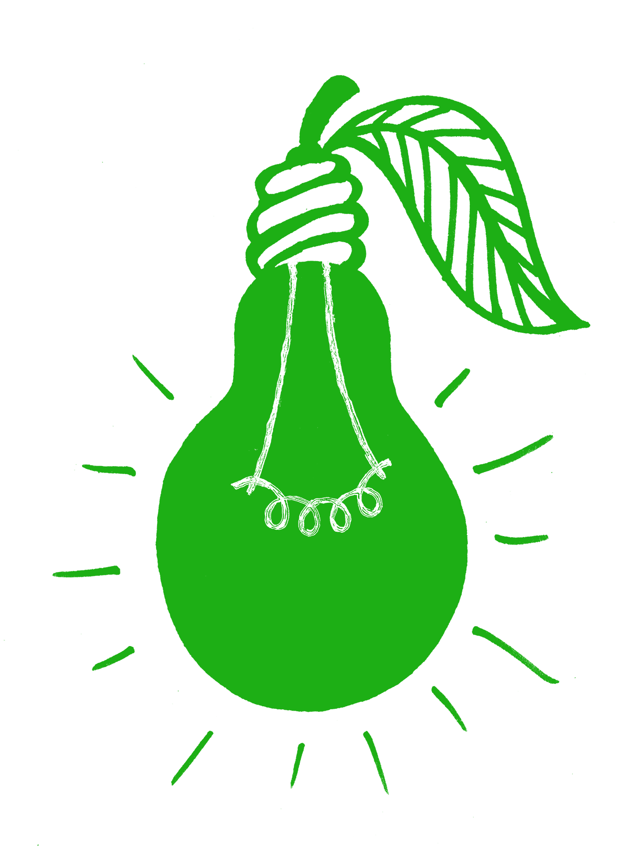 Illustrating Green Ideology